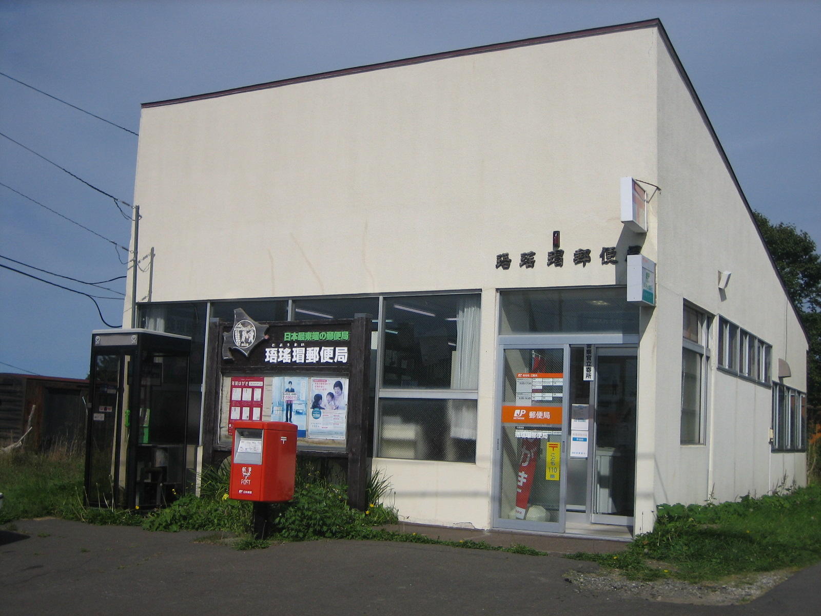 Goyomai post office in Hokkaido, Japan